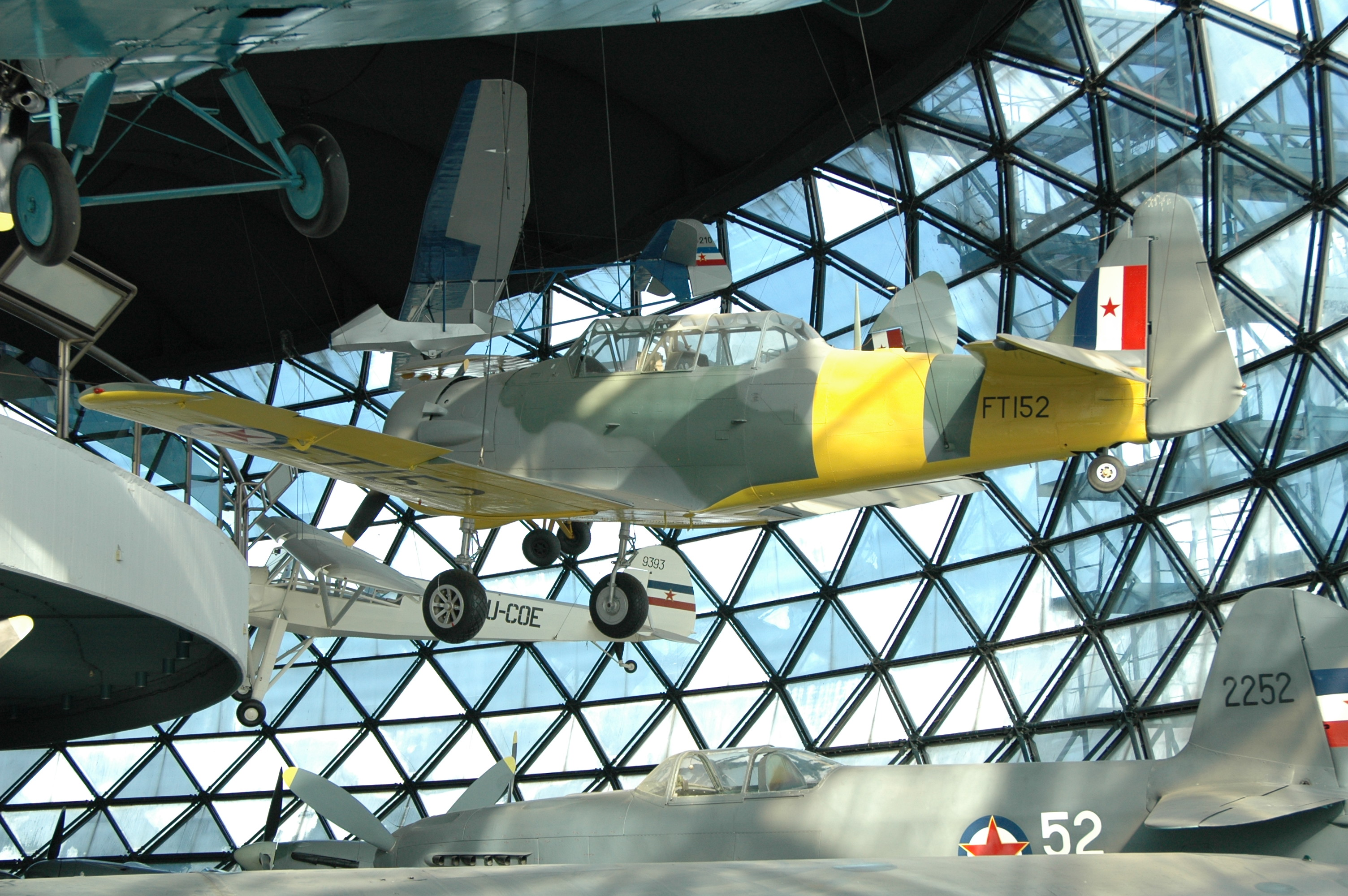 Harvard T-6G MkIIb